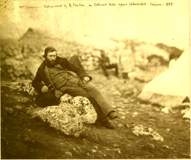 William Simpson in the Crimea. Photographer: Roger Fenton. (March 20, 1819 - August 8, 1869) Writing on the print states, "William Simpson photographed by R. Fenton on Cathecart Hill before Sebastapol. Crimea. 1855." Adrian Lipscomb collection.